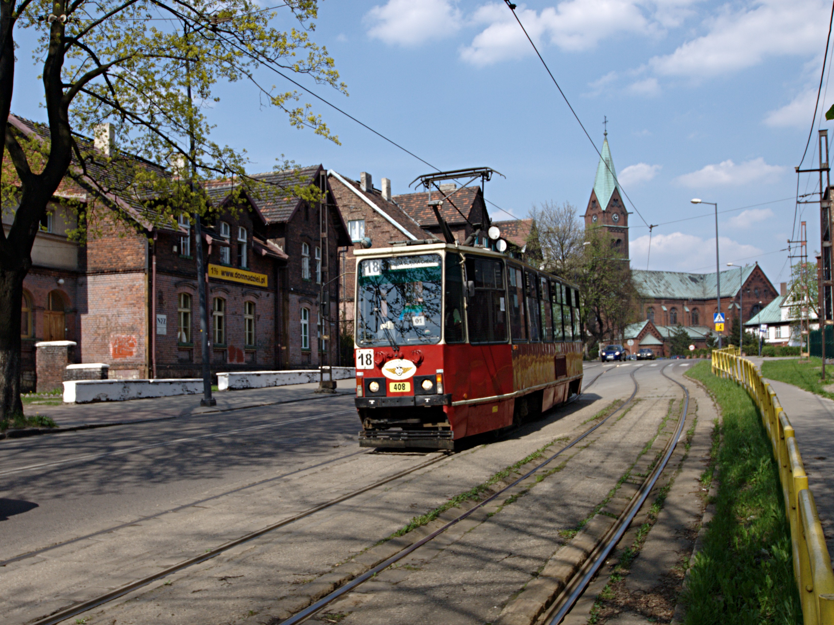 Konstal 105Na tram (#408) in Bytom, Poland. Built 1991, Tramwaje Śląskie from Chorzów operator.